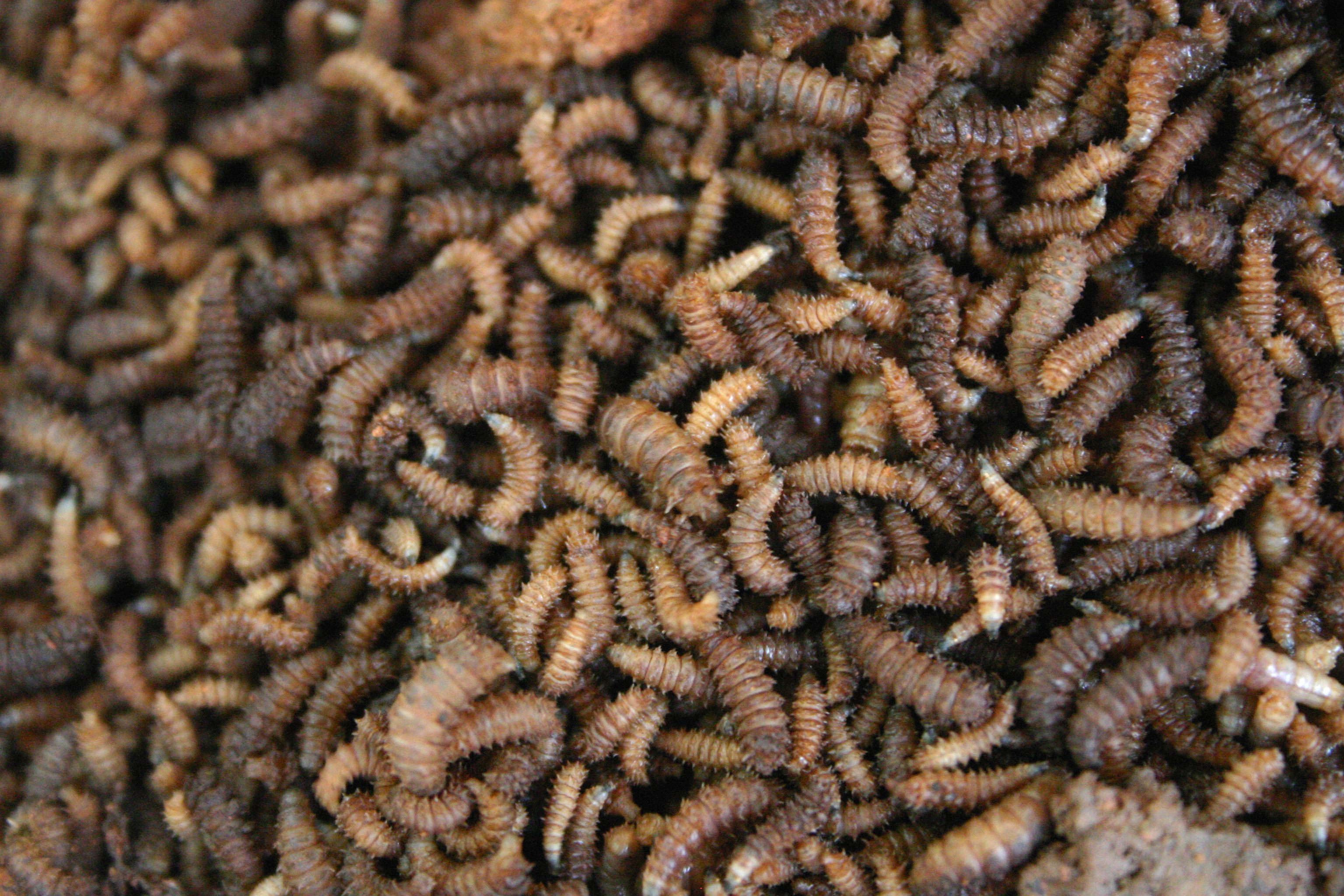 Fly and beetle larvae on 5-day old corpse of South African Porcupine (Hystrix africaeaustralis), Honeydew, Gauteng